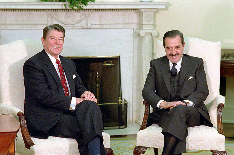 11-17-1986 Working visit of President Alfonsin of Argentina, photo opportunity with President Reagan in oval office